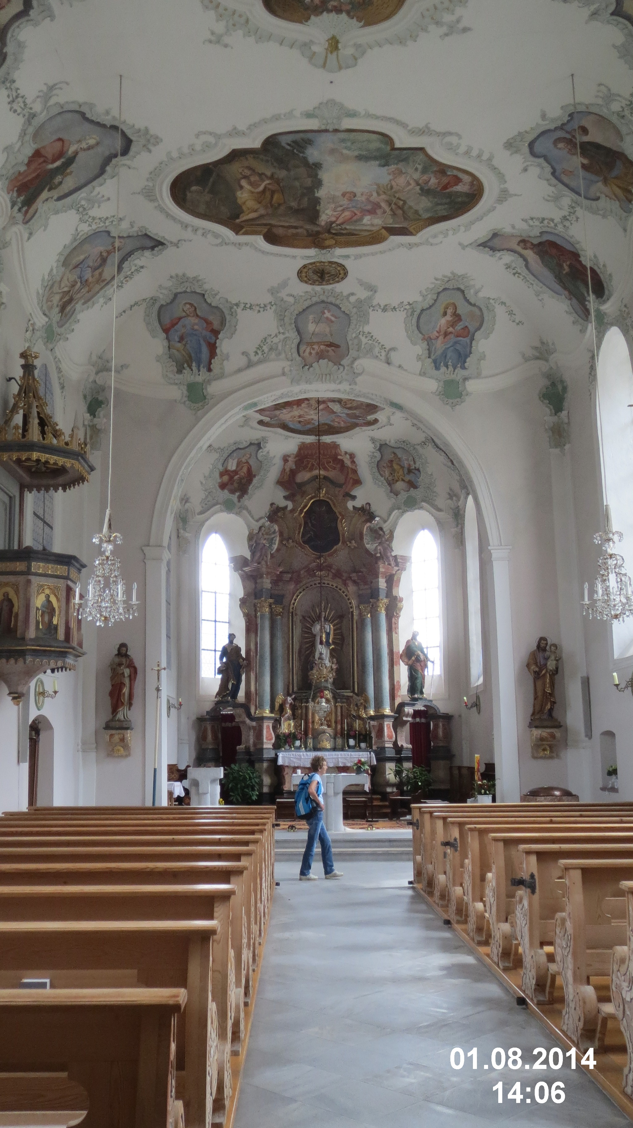 Parish church of the Assumption of the Blessed Virgin.